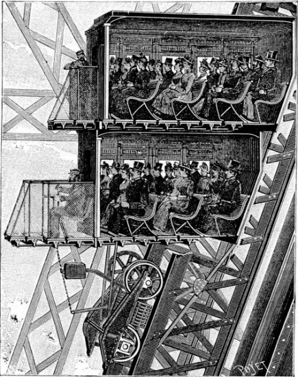 Cross-section of Otis elevators installed in Eiffel Tower